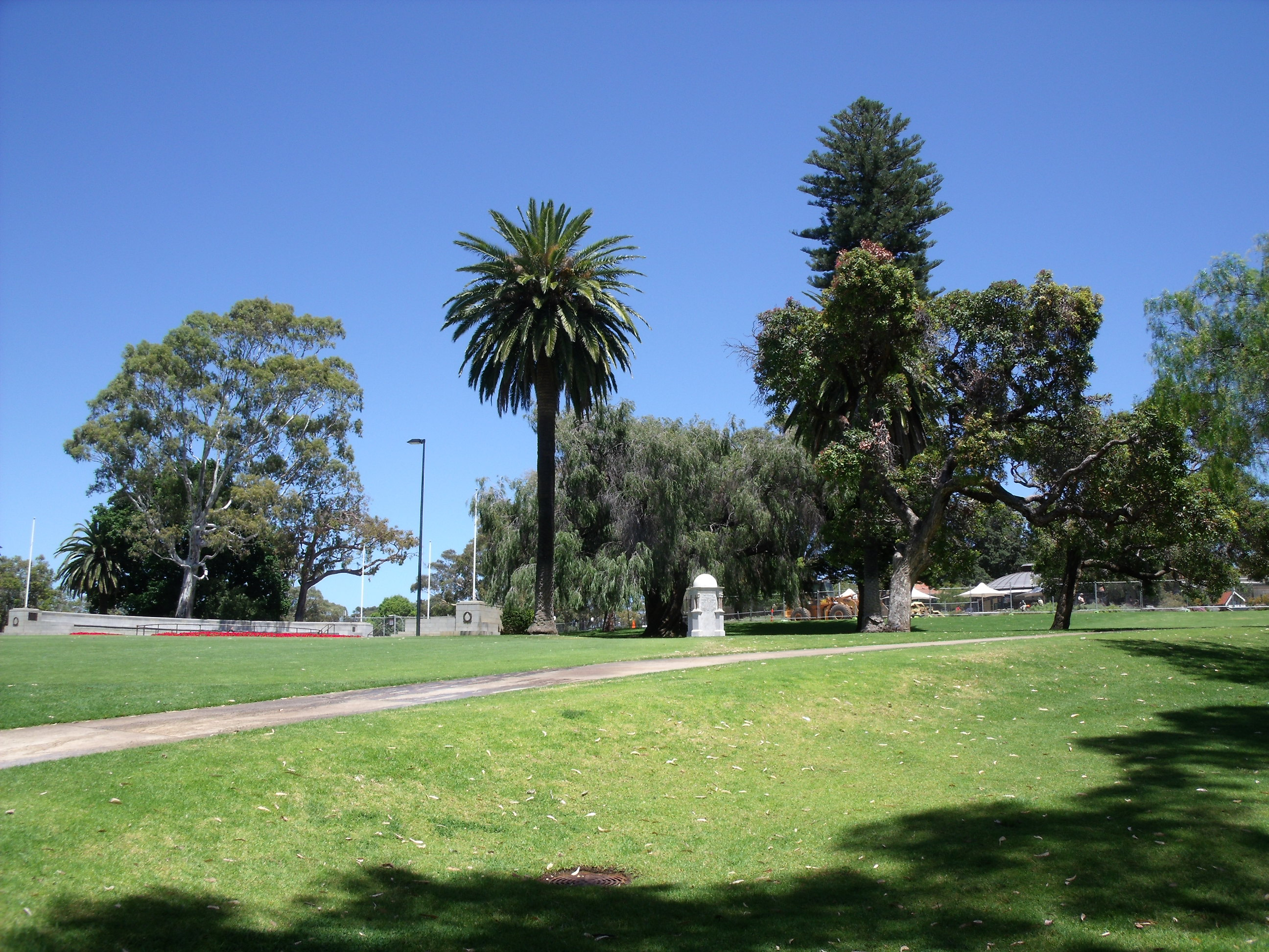 Kings Park in Perth, Western Australia.